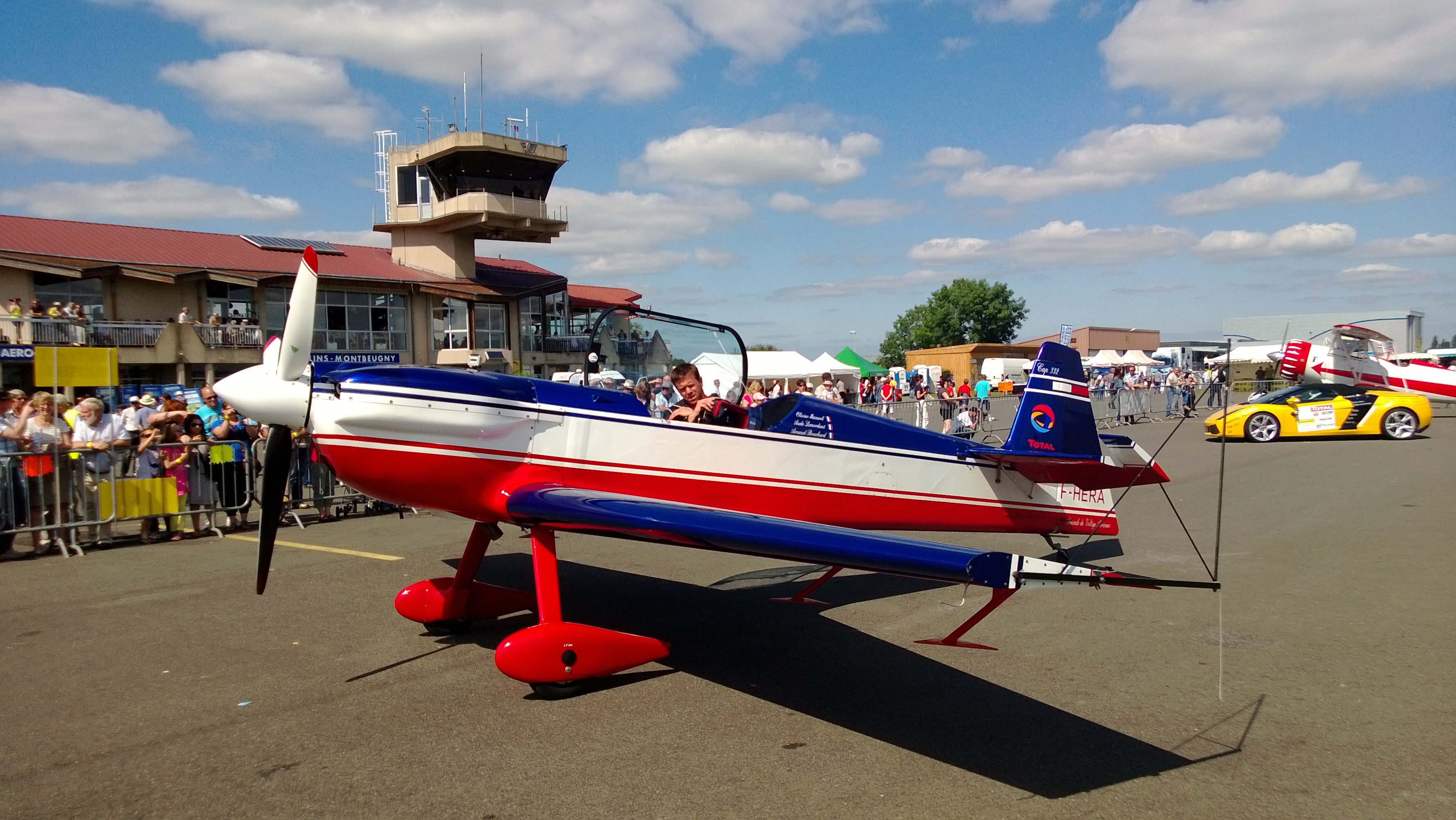 Cap 332 of Olivier Masurel, Moulins.